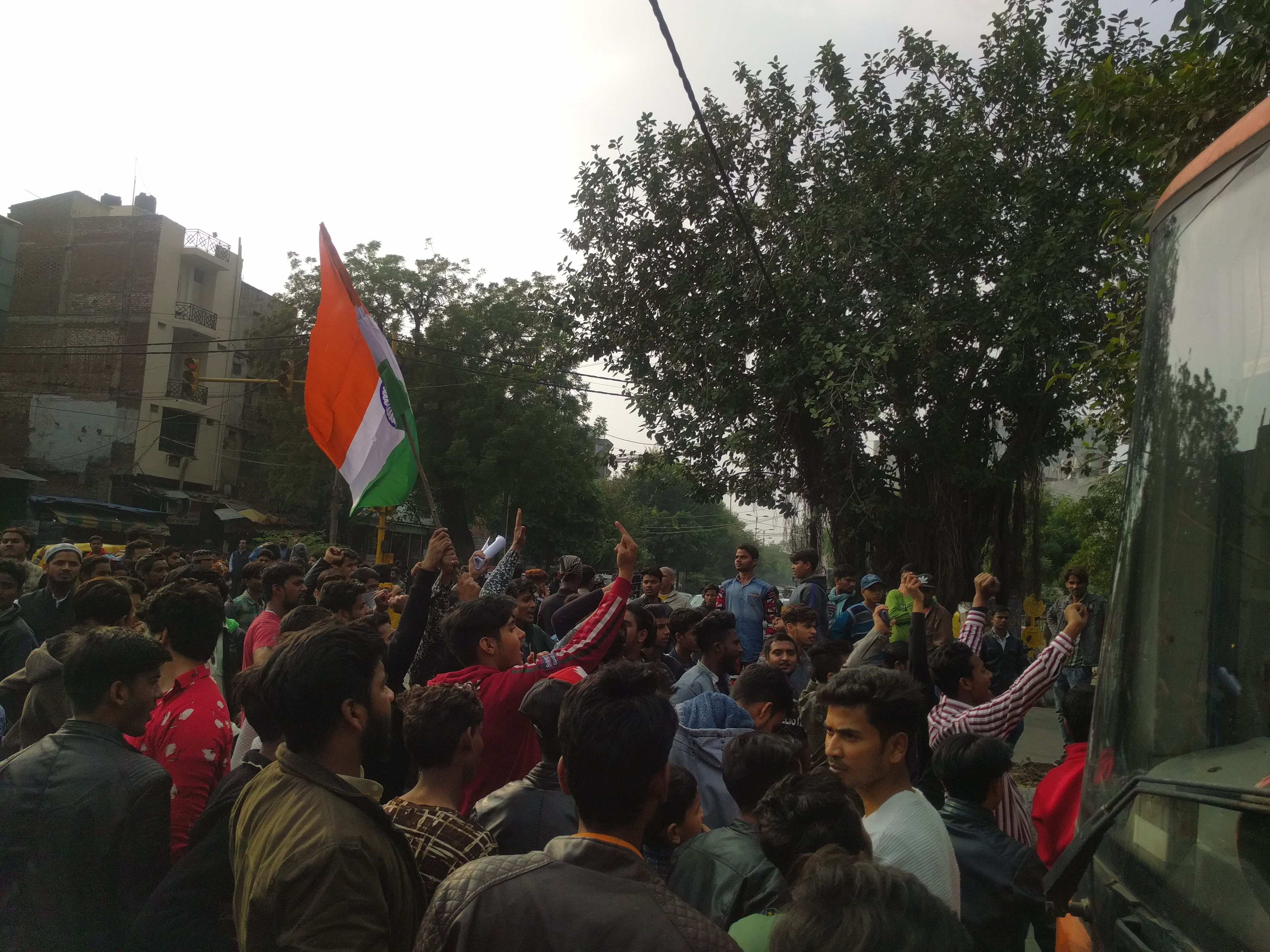 Anti-CAB/NRC protestors stopping traffic in New Delhi